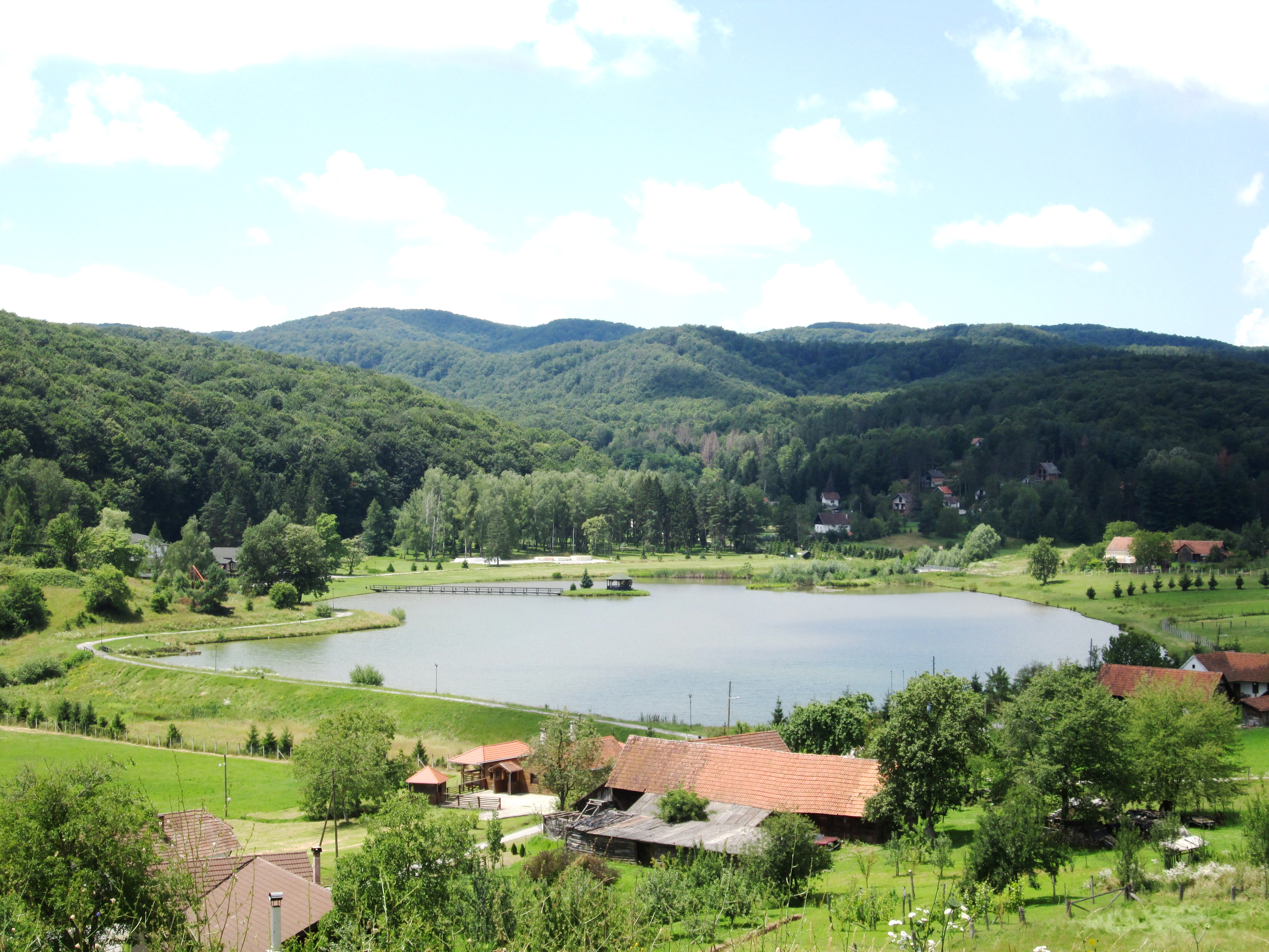 View on the Moslavacka Gora Regional Park in the village of Podgaric in Croatia